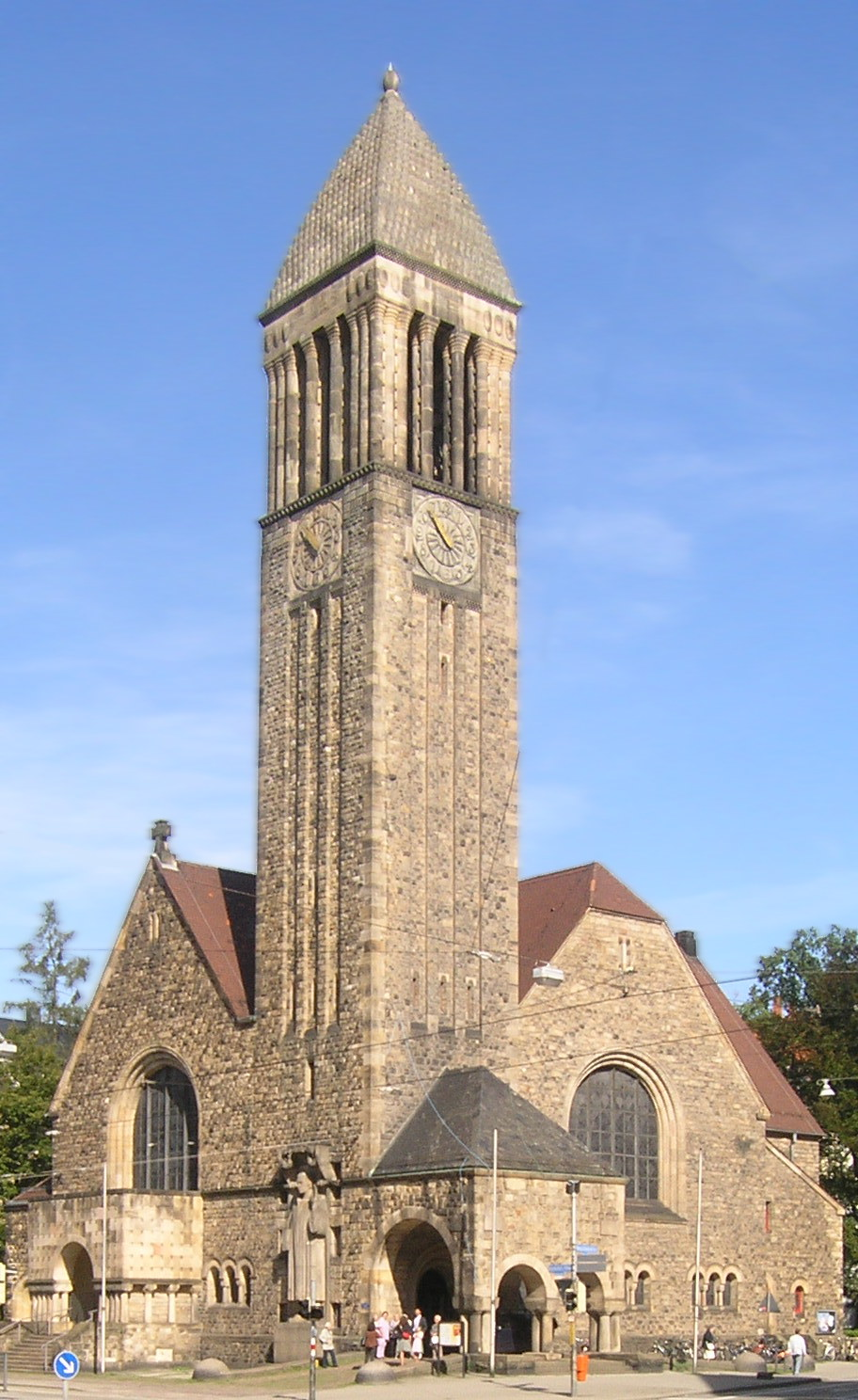 Lutherkirche ("Luther Church"), in Karlsruhe eastern quarter.